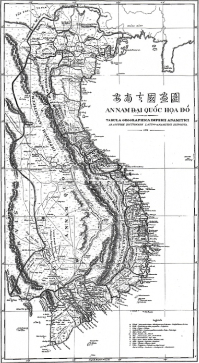 Map_of_Annam by Jean-Louis Taberd 1838